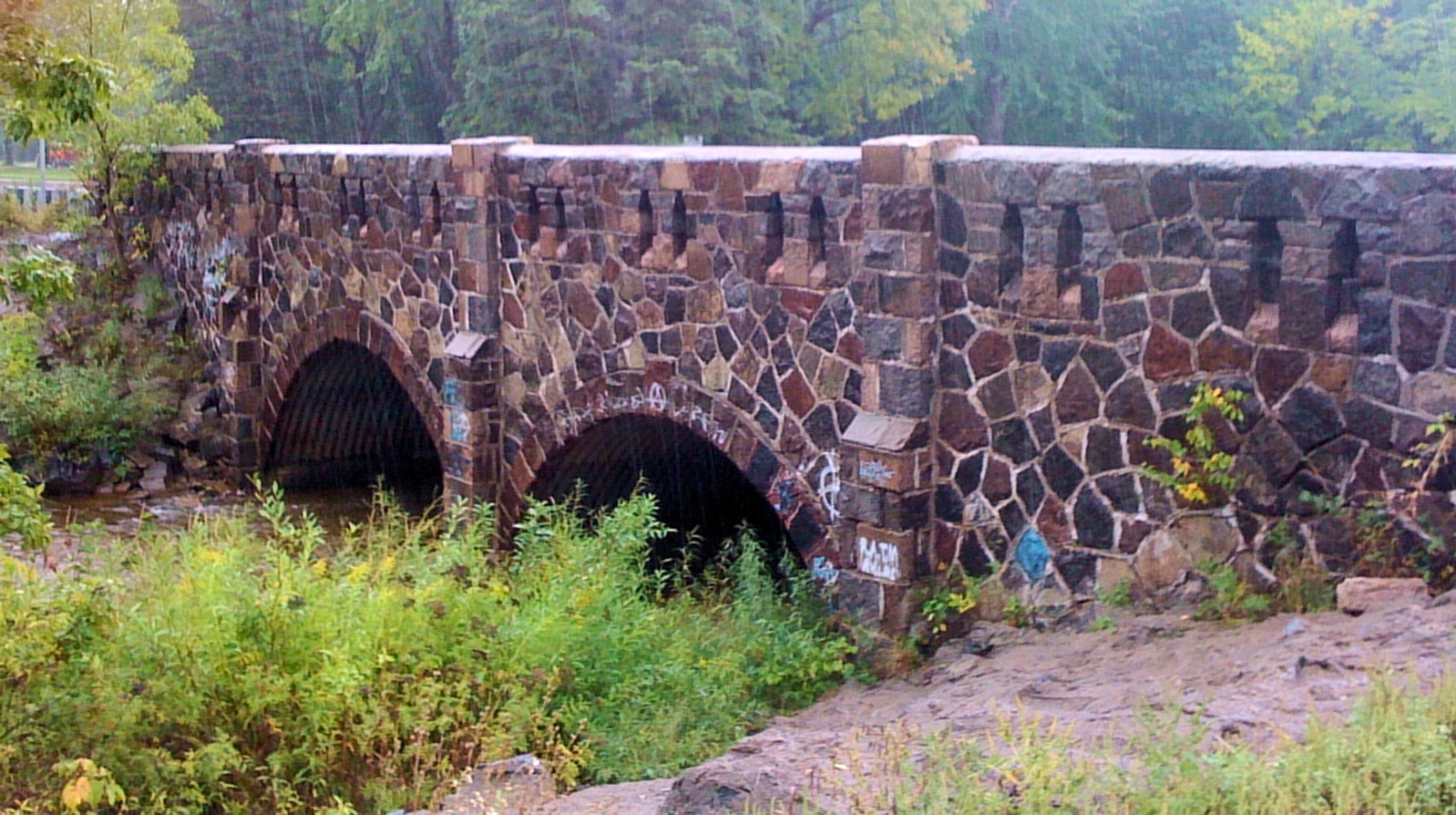 Bridge No. 5757 in Duluth, Minnesota, listed on the National Register of Historic Places.